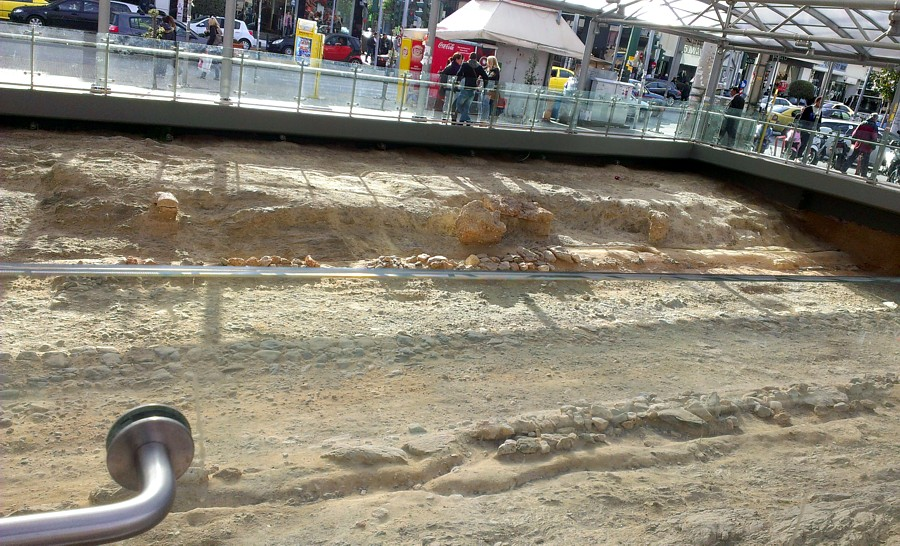 iera-odos